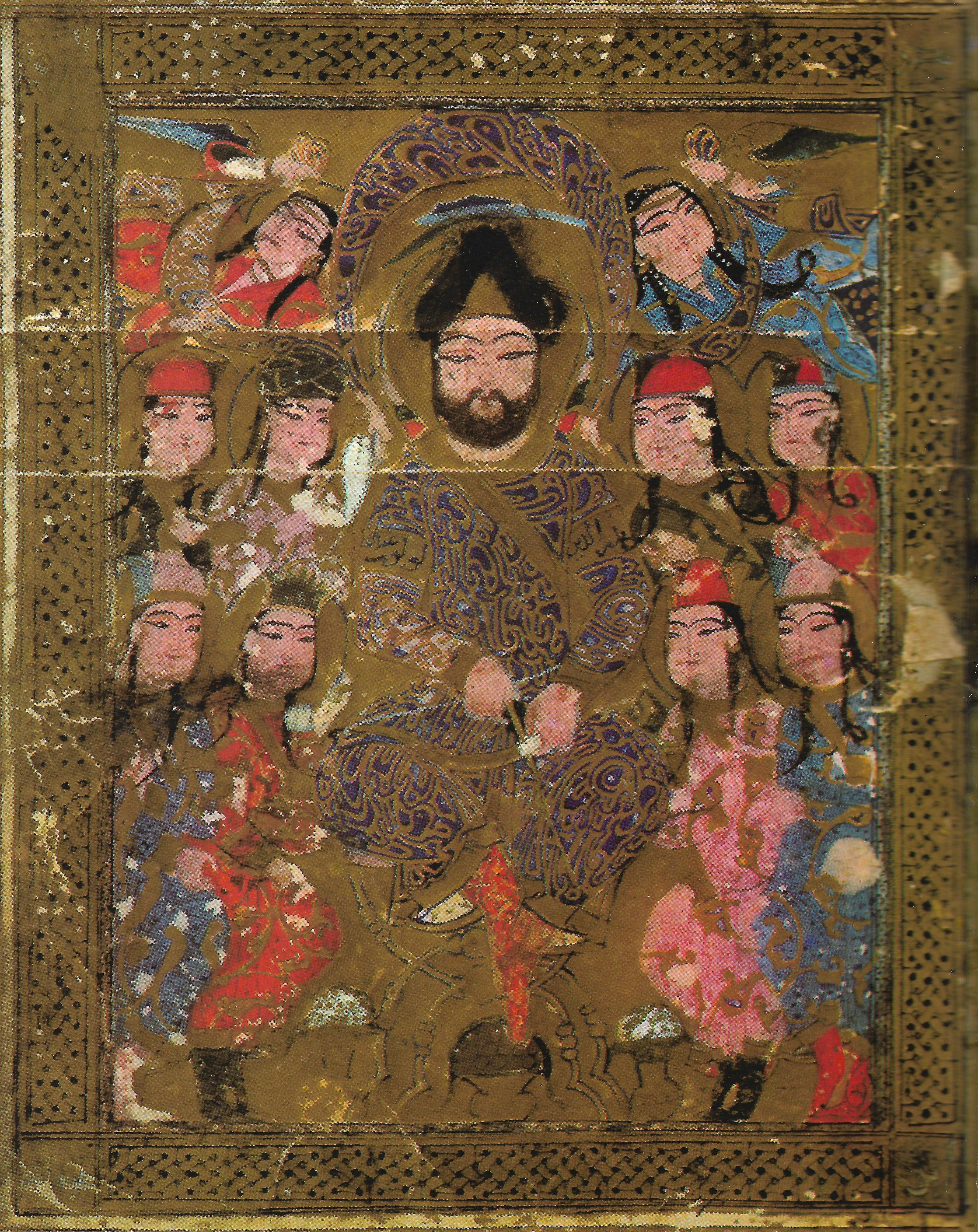 Arab painting is the frontispice of a manuscript of Kitāb al-Aghānī (Book of Songs) of Abu al-Faraj al-Isfahani. It may be a representation of Badr al-Din Lu'lu'